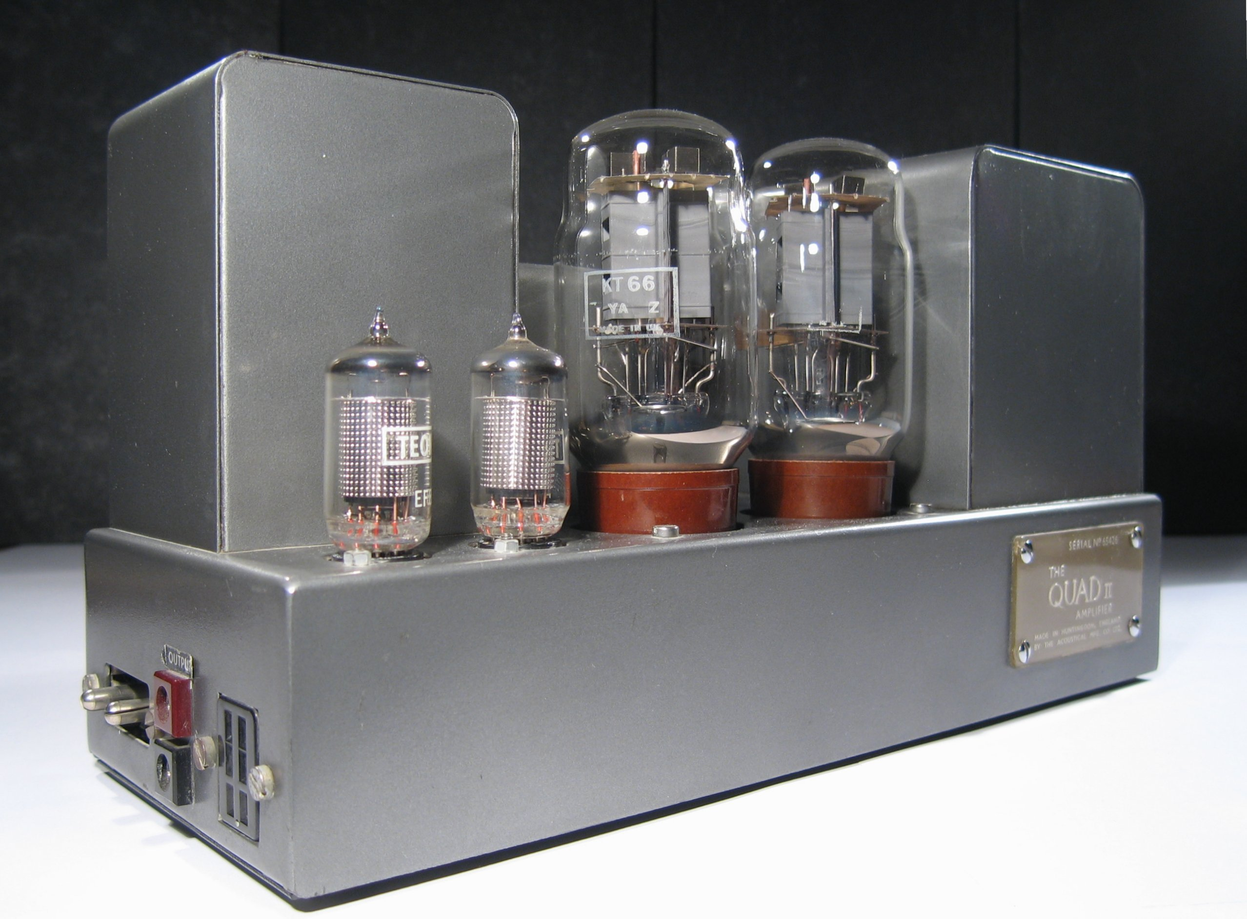 Quad II power amplifier. Photo taken by User:Harumphy February 20th, 2006.